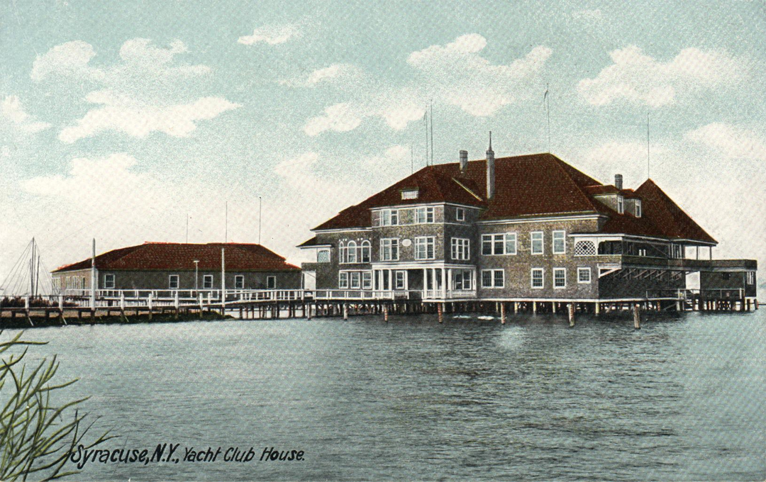 Onondaga Lake Yacht Club House - about 1910